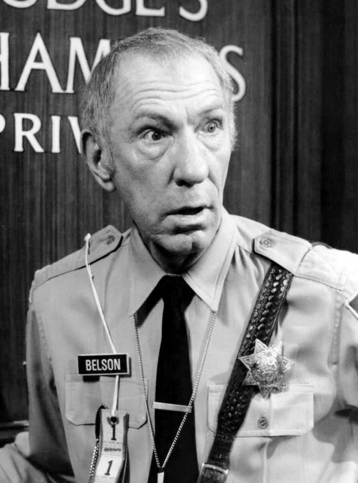 Photo of actor Owen Bush as Bailiff Belson from the television program Sirota's Court.